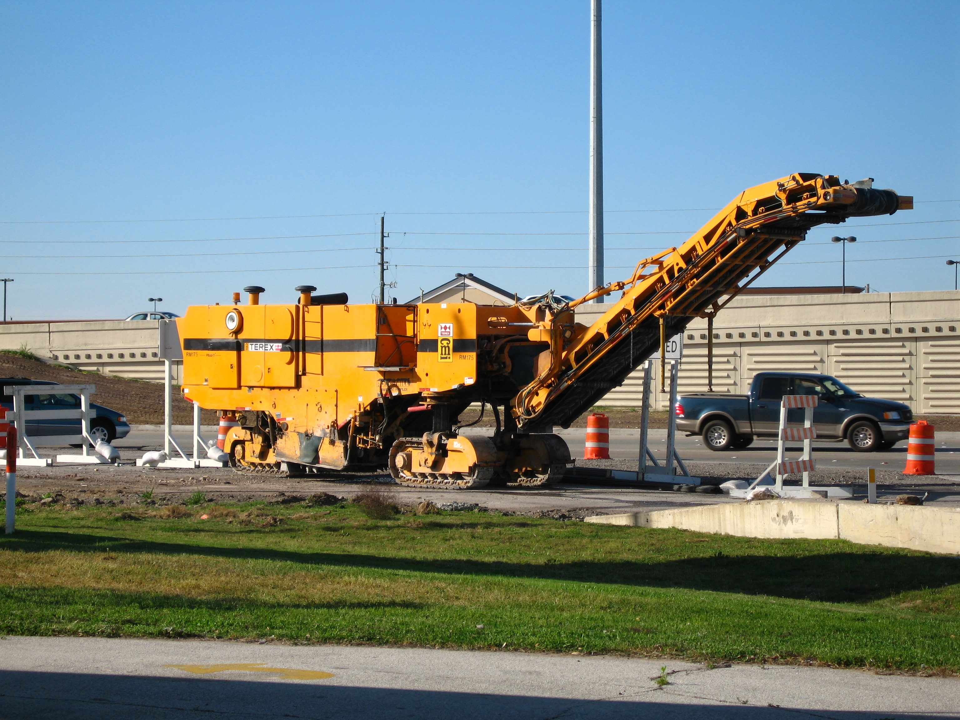 A Terex Asphalt Milling Machine.